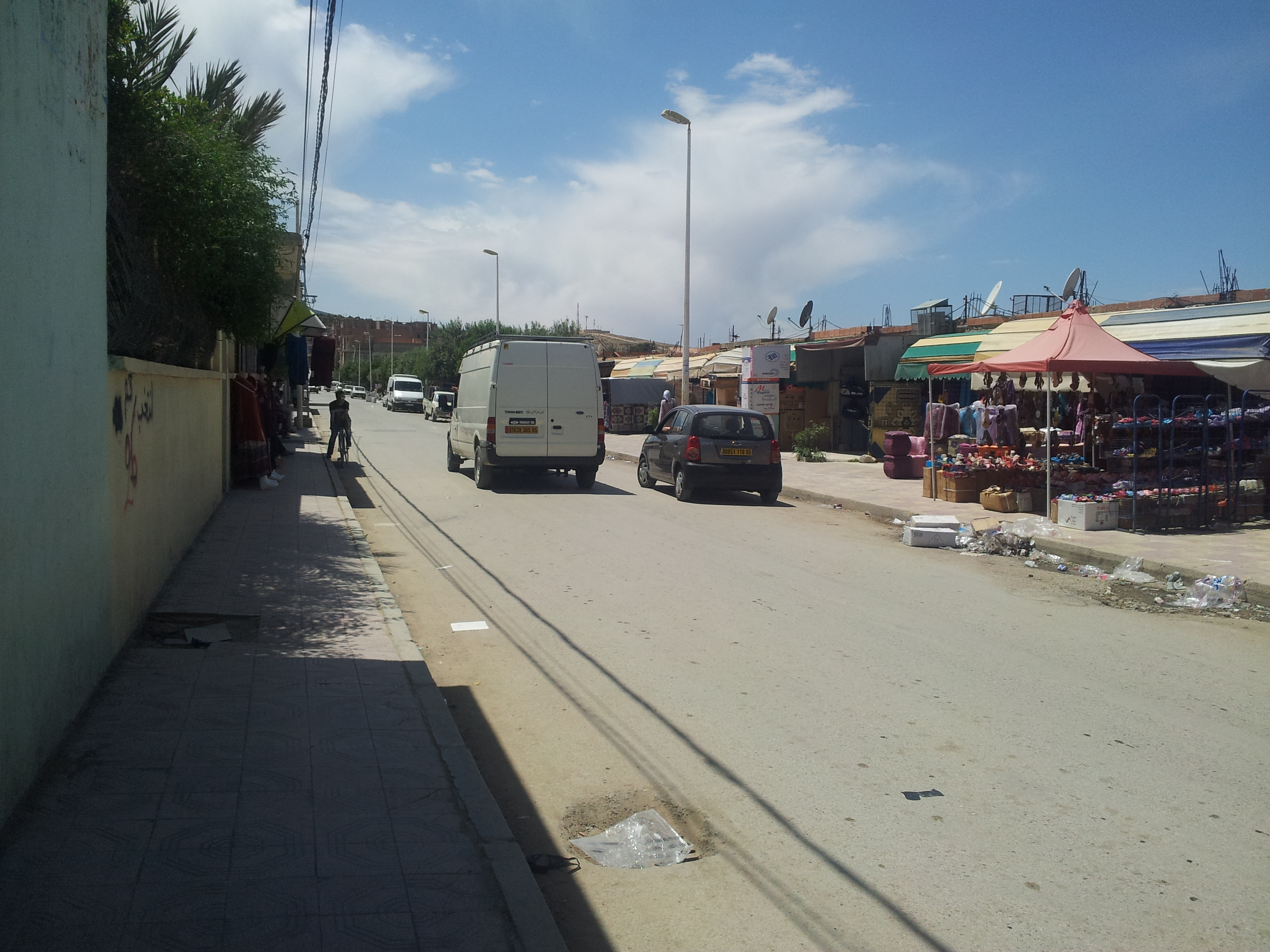 merouan city